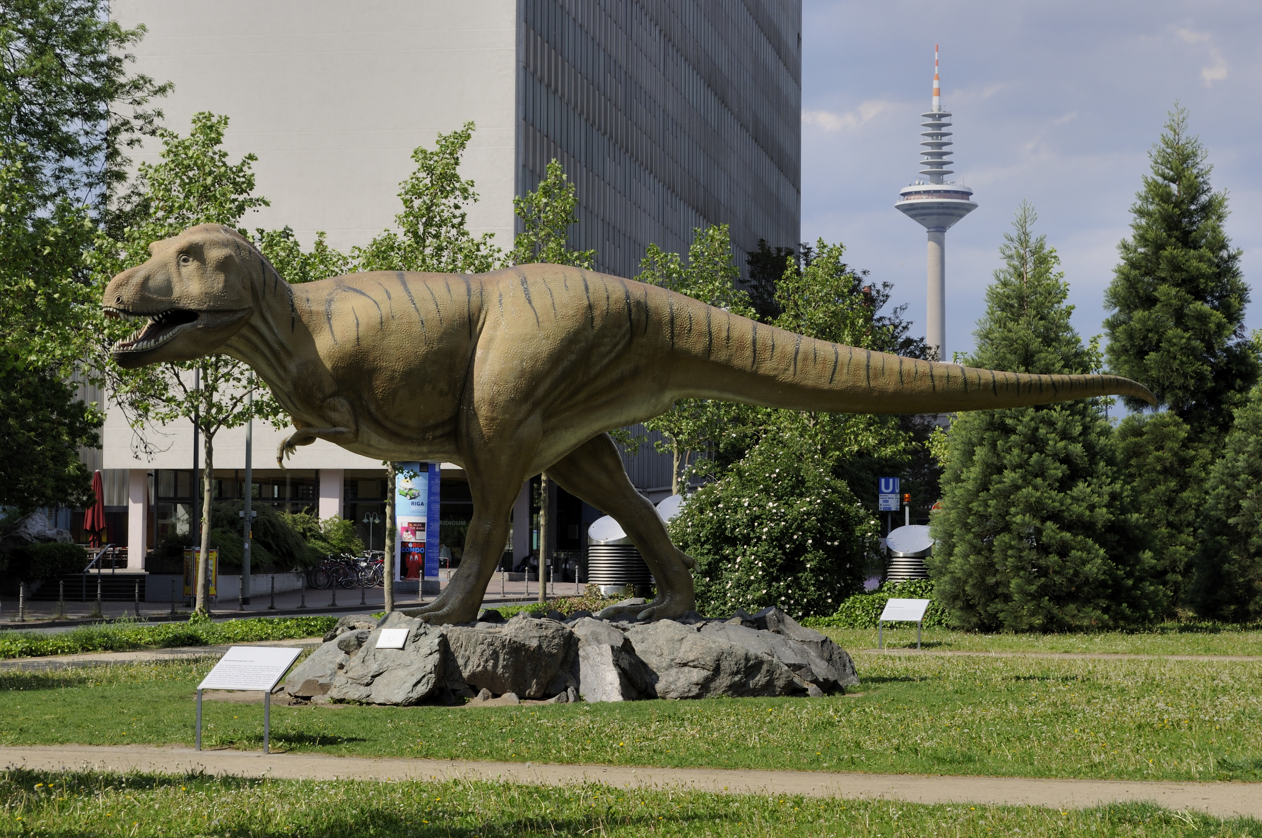 Park next to Naturmuseum Senckenberg.